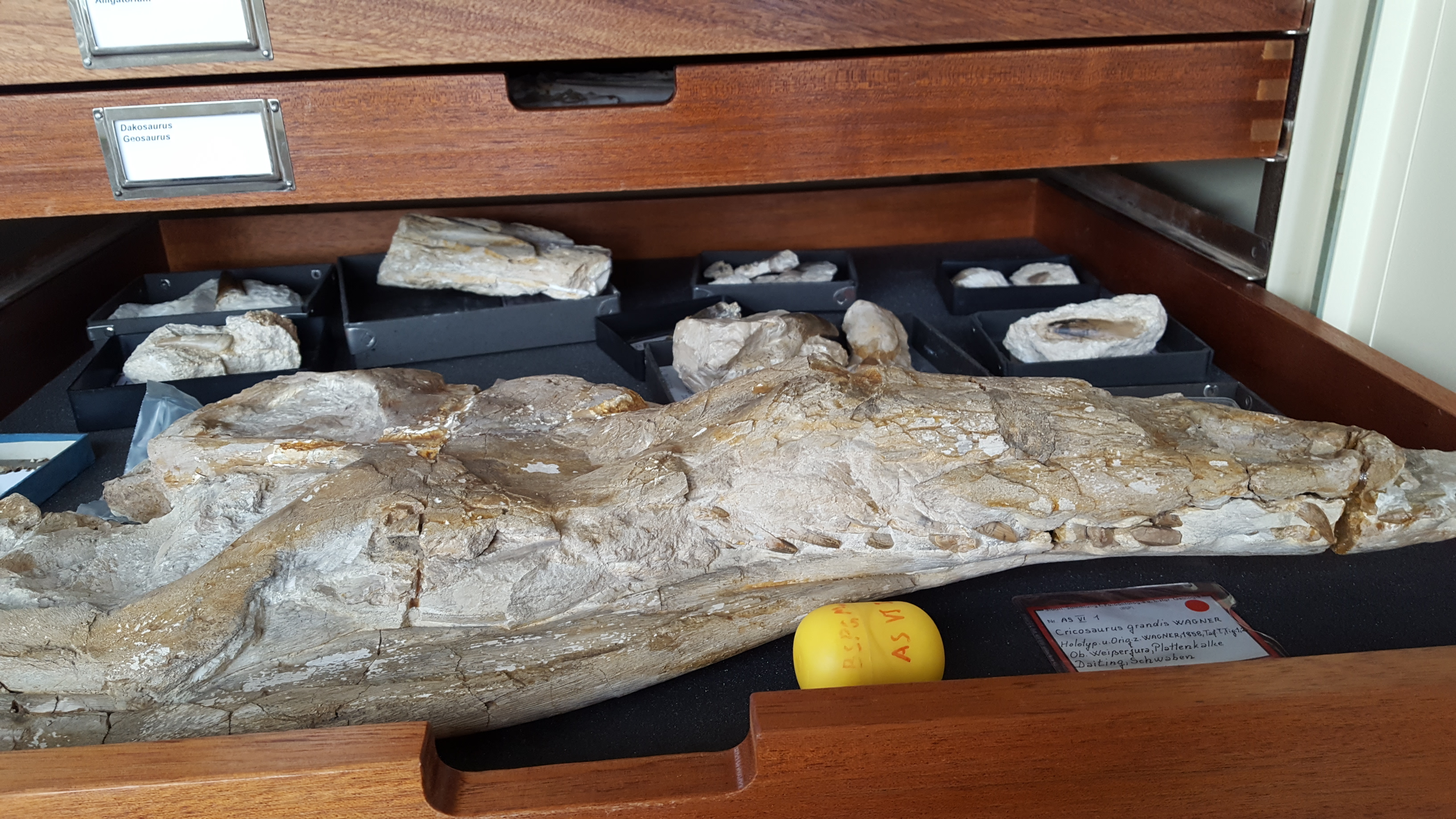 Holotype of the marine crocodile Geosaurus grandis at the palaeontological collection of Munich.